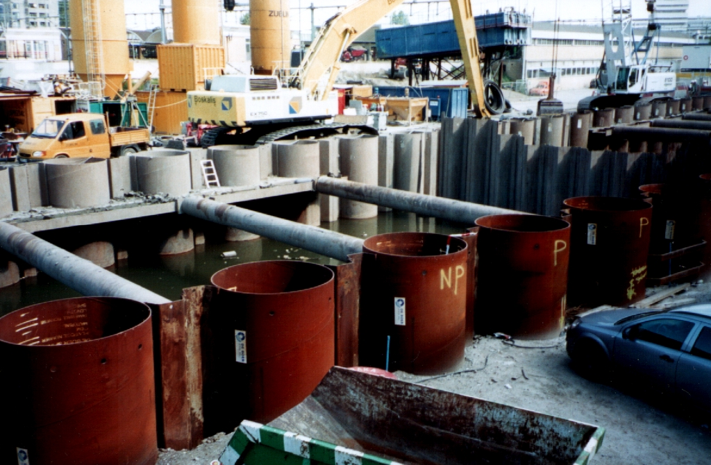 Combiwand in Rotterdam